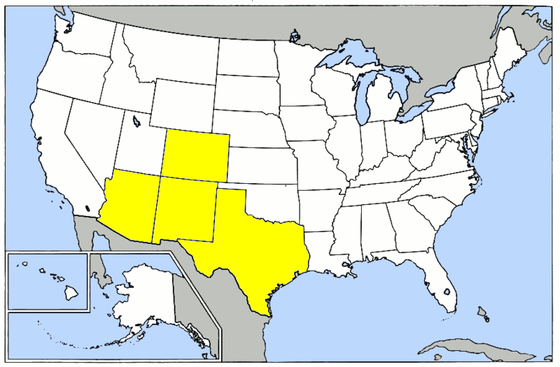 38th Flying Training Wing (World War II) - Map. Based upon for basemap; Lineage and History of 31st Flying Training Wing (World War II); United States Air Force Historical Research Agency Document, Maxwell AFB, Alabama